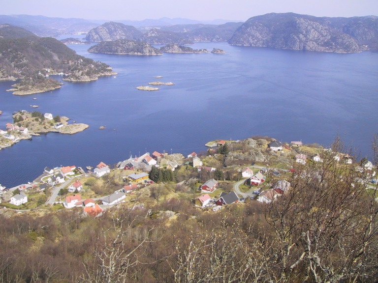 Parts of Andabeløy village seen from Nonknuten at Andabeløy, Risholmen to the left. North is up in the picture, and Flekkefjord lies between the mountains.